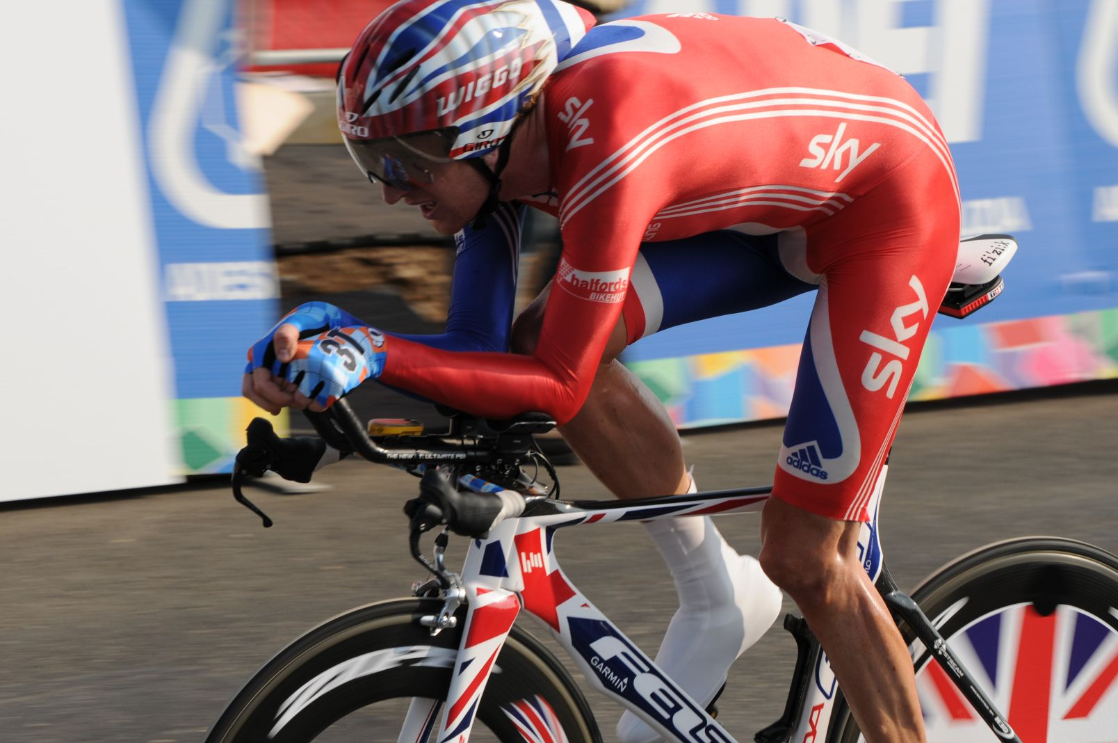 Bradley Wiggins at UCI World Championships in Mendrisio, Switzerland